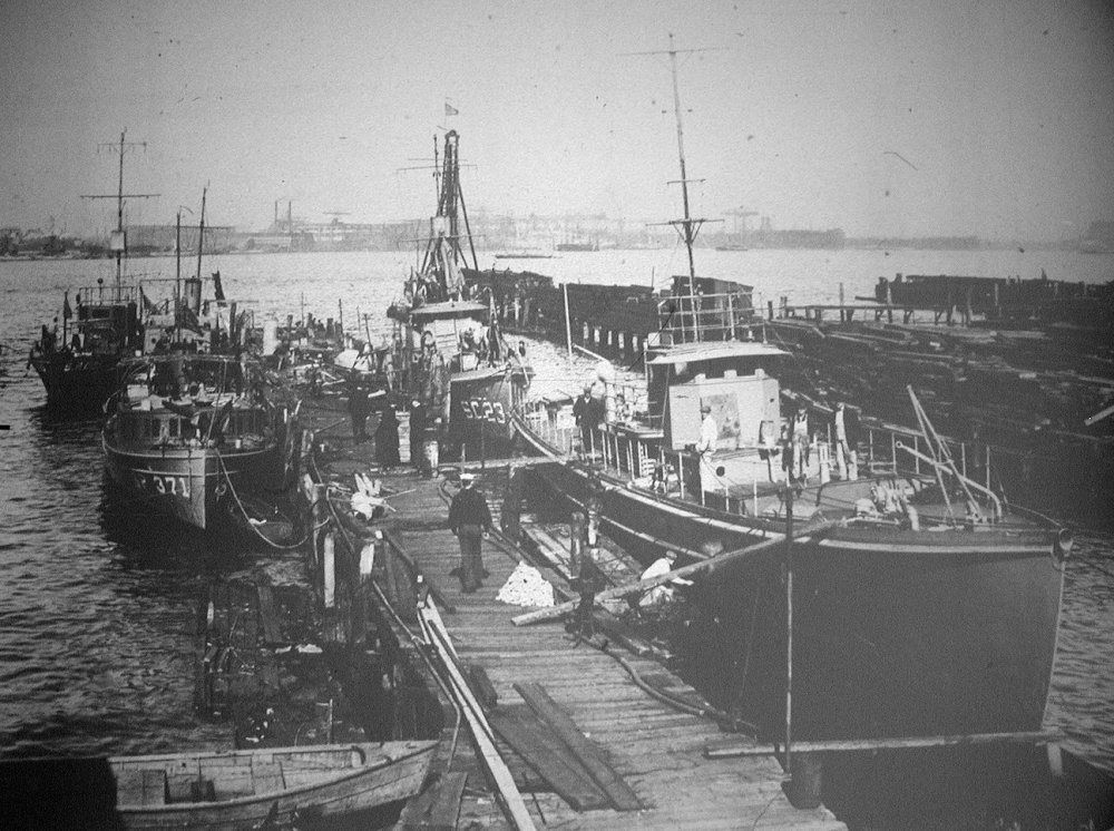 United States Navy patrol vessels at Philadelphia, Pennsylvania. Visible are the section patrol boats USS SP-1595 (left background) and (left center), the submarine chaser (right background), and an unidentified submarine chaser (right foreground).